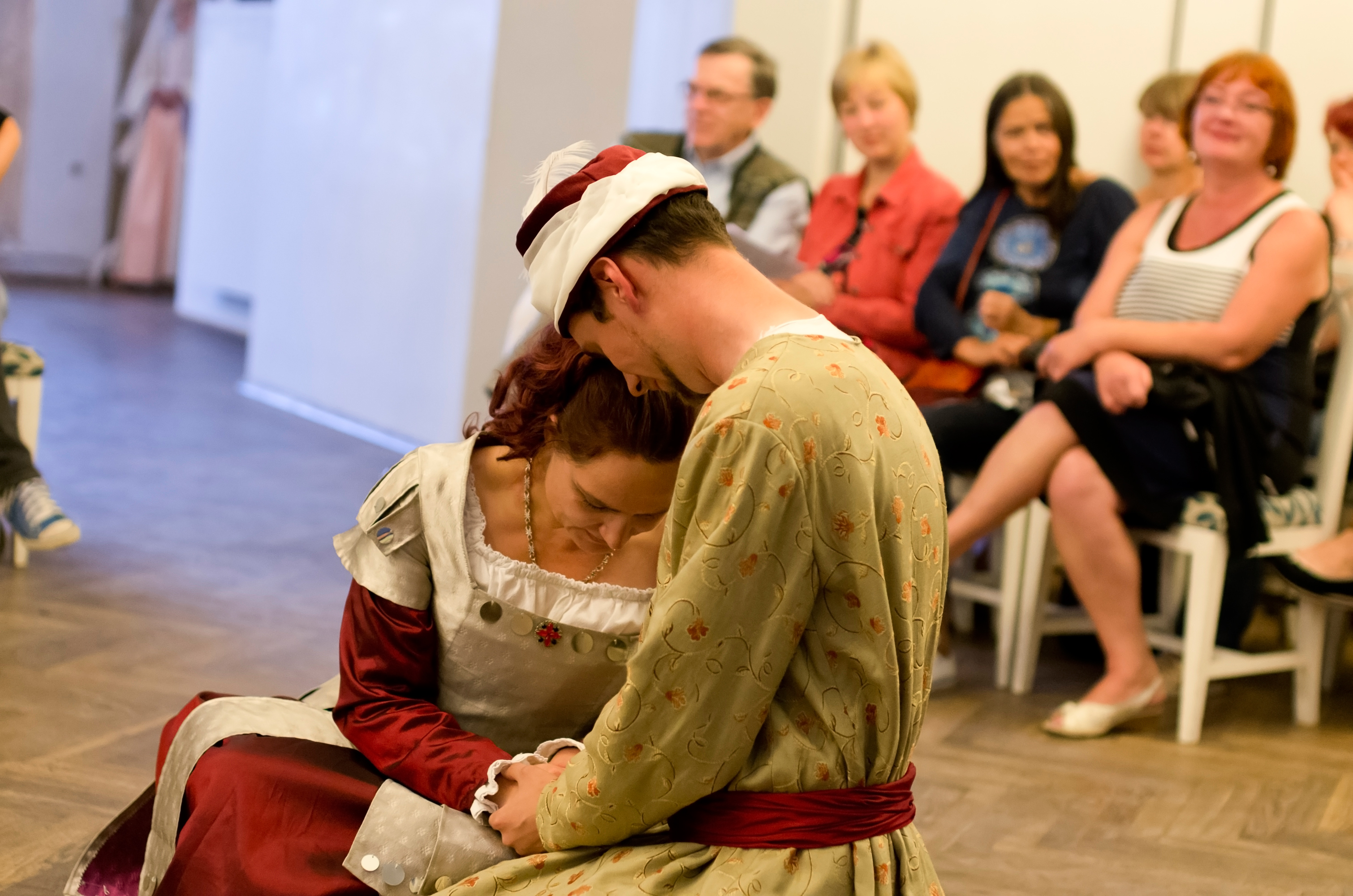 Moments from the performance "Orlando furioso" of the early dance ensemble Saltatriculi, August 16th 2015.